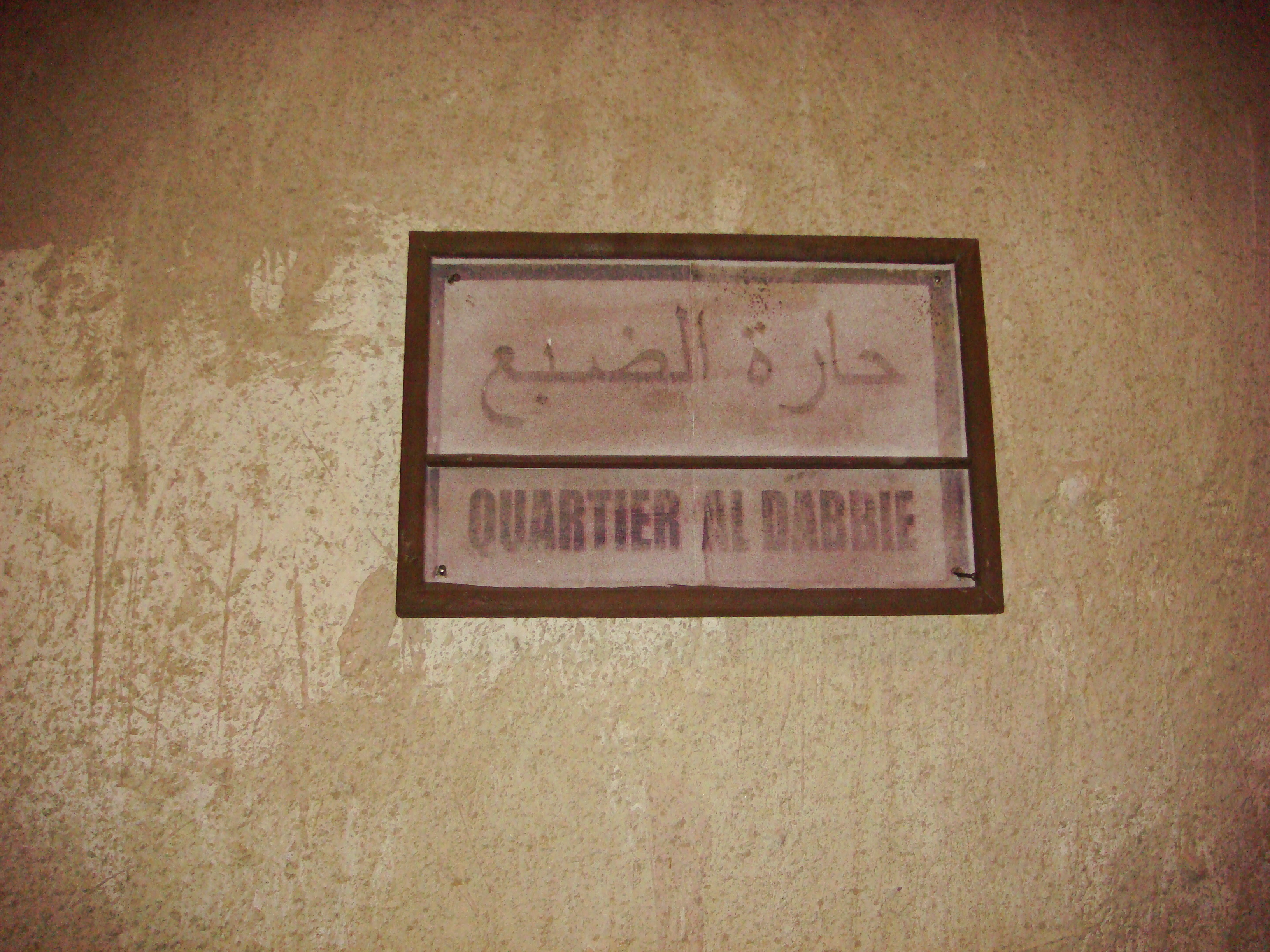 QUARTIER AL DABBIE